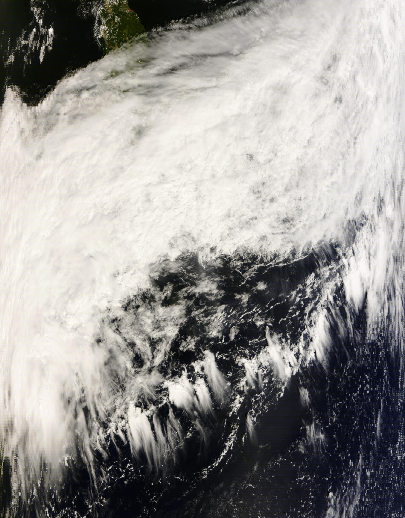 Satellite image of stationary front(Akisame front) cloud over Japan.